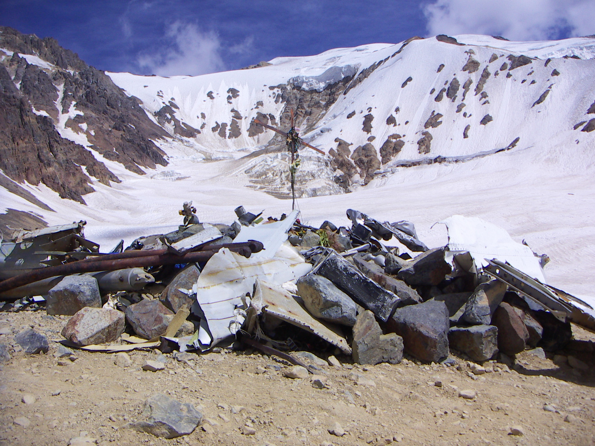 View of the Crash Memorial in February 2006. In the distance behind the Memorial is the mountain that Parrado and Canessa climbed for the final push to reach rescue. The photo is taken looking West.